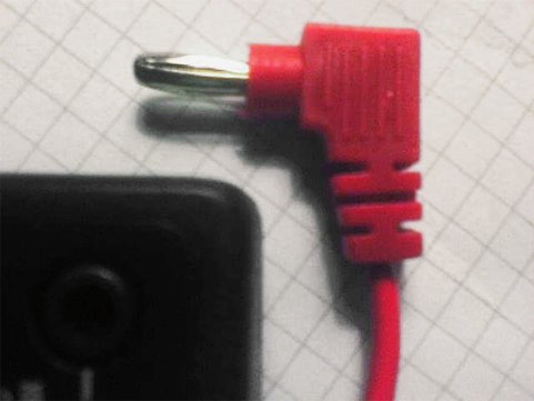 connector to the digital multimeter